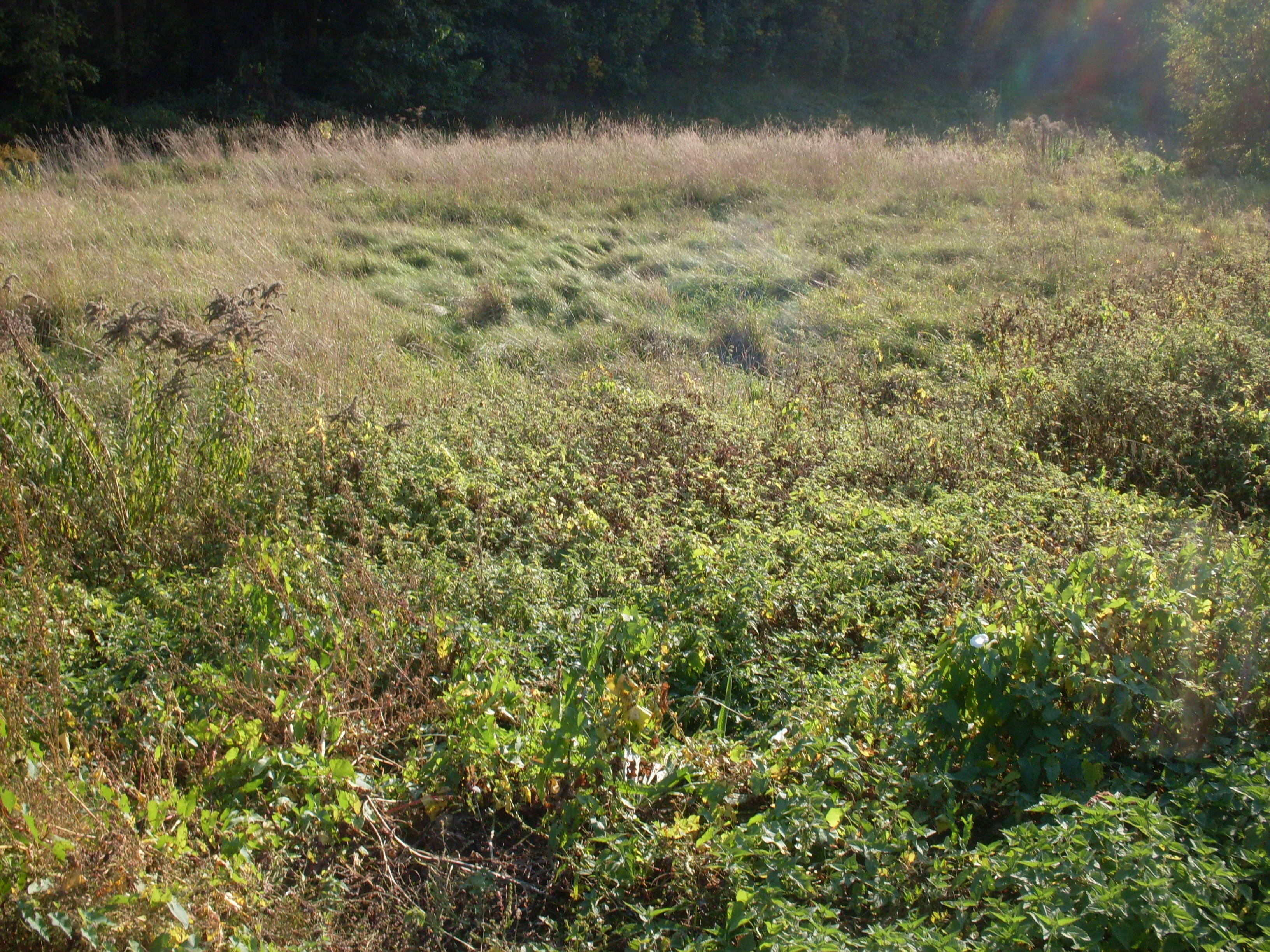 Tenczynek.Piaski.Były staw browaru